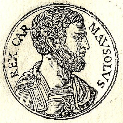 Mausolus was ruler of Caria (377–353 BC).